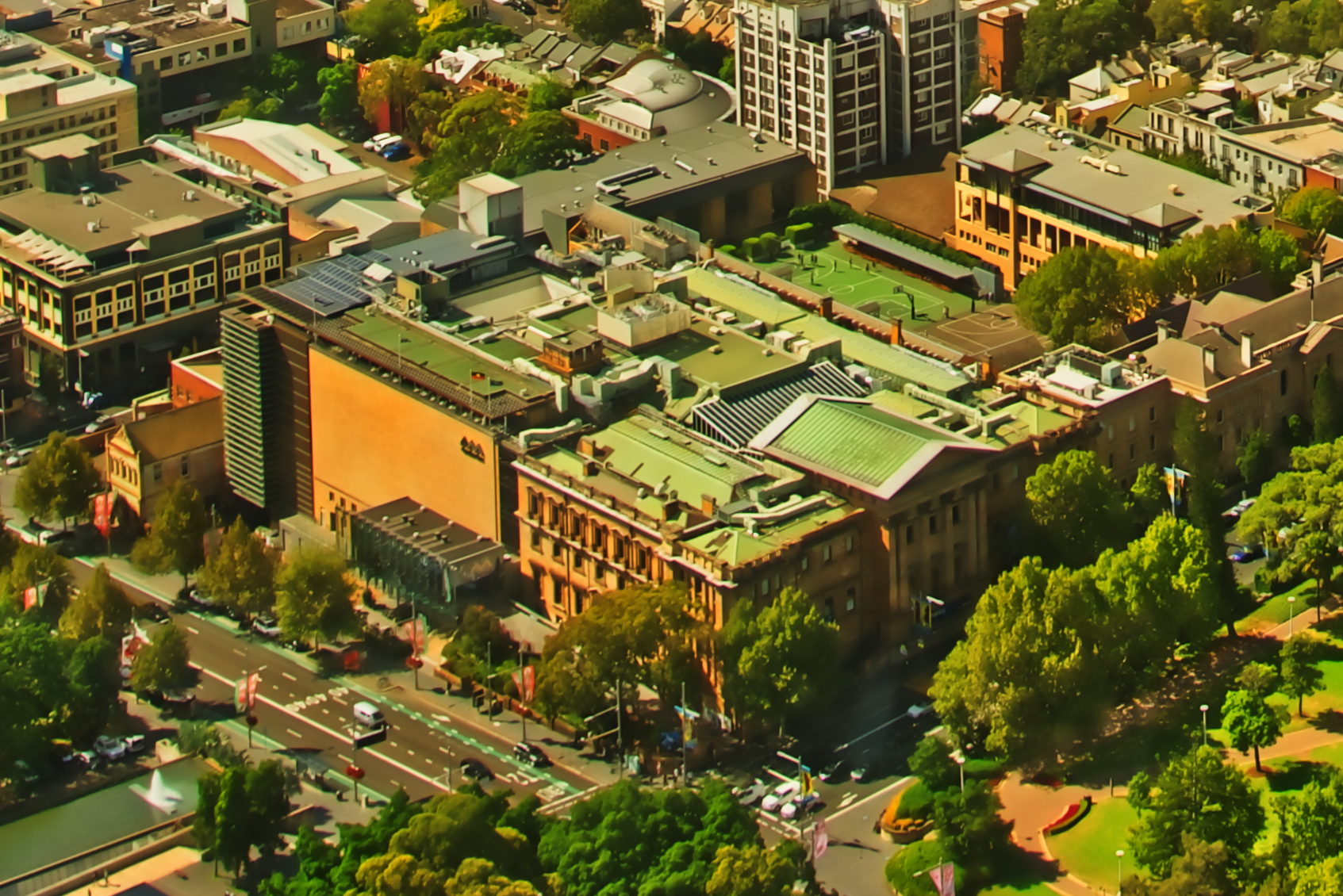 A view of Australian Museum from Sydney Tower on Feb 16, 2019